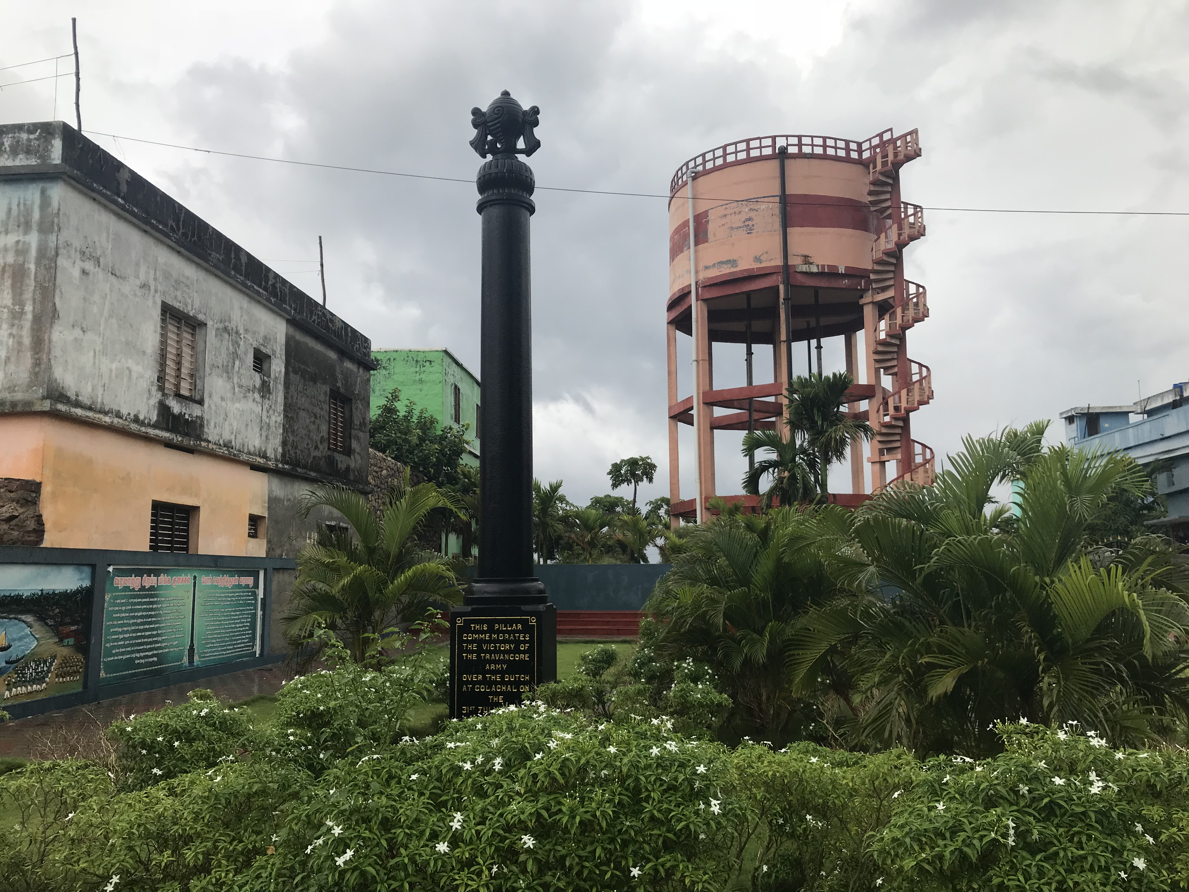 The Victory Pillar is the monument built to remember the victory of Travancore Army against the Dutch Navy